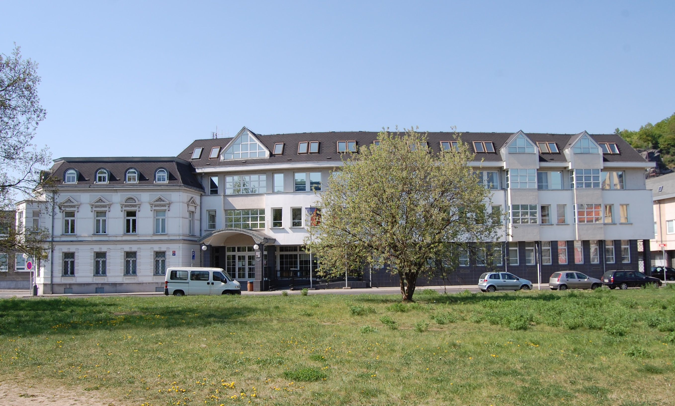 Ústí nad Labem, Střekov, Kramoly 641/37. District Courthouse